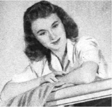 Photo of actress Frances Chaney in 1945. A search for renewals was done in publications for the years 1972 and 1973 Two issues from 1945 were renewed-the April and May issues, but no others. This photo is from the November 1945 issue; there's no evidence of renewed copyright for the other 1945 issues of the magazine.